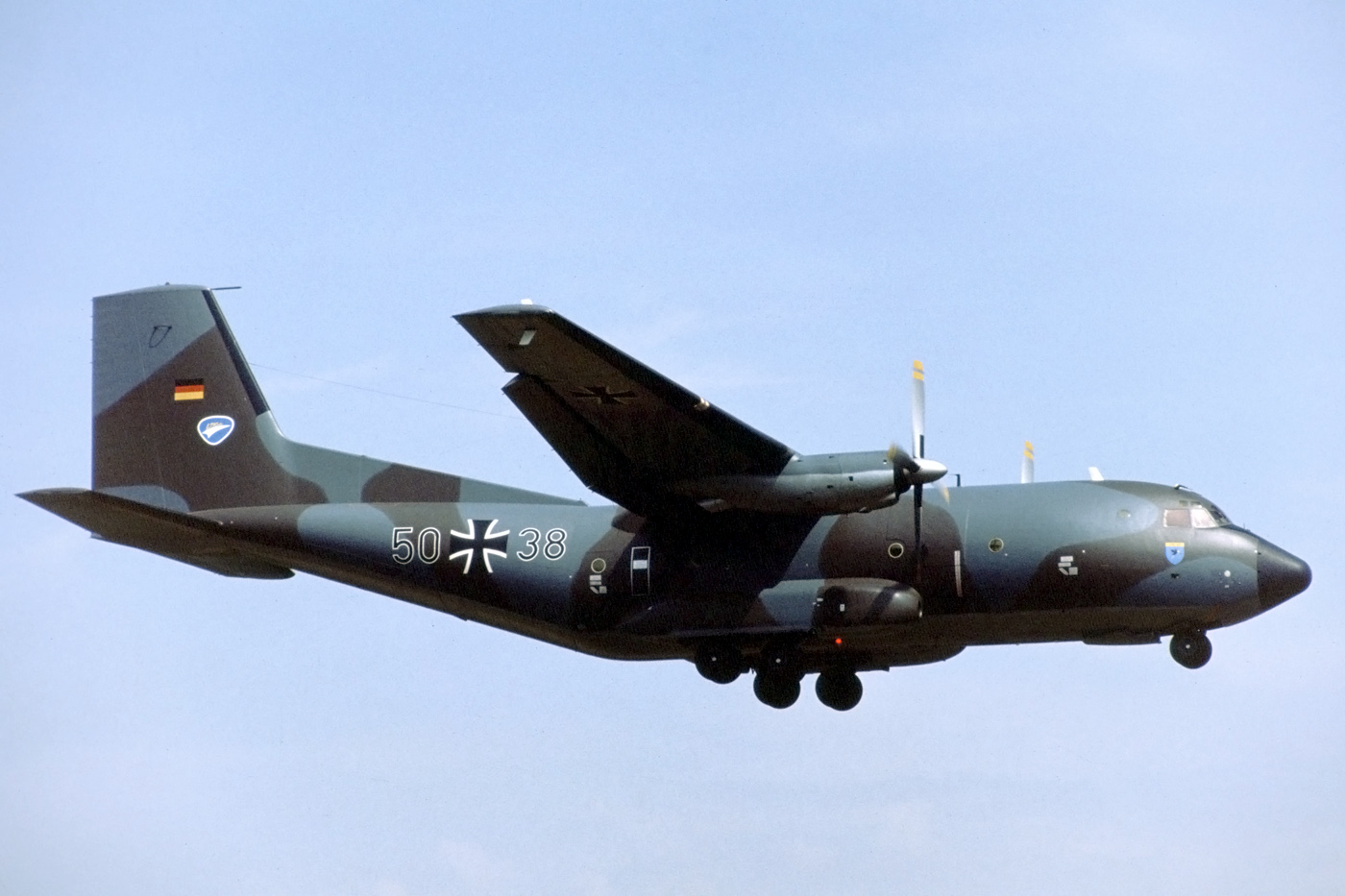 Greenham Common, 22 July 1983. International Air Tattoo 1983, Friday arrivals day. 50+38 is still in service today, but its days are numbered. The Transalls will be replaced by the much larger A400Ms and possibly C-130Js.